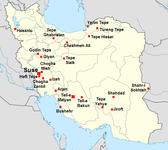 Map locating the major archaeological sites of Iran during the 3rd to 2d millennium B.C.